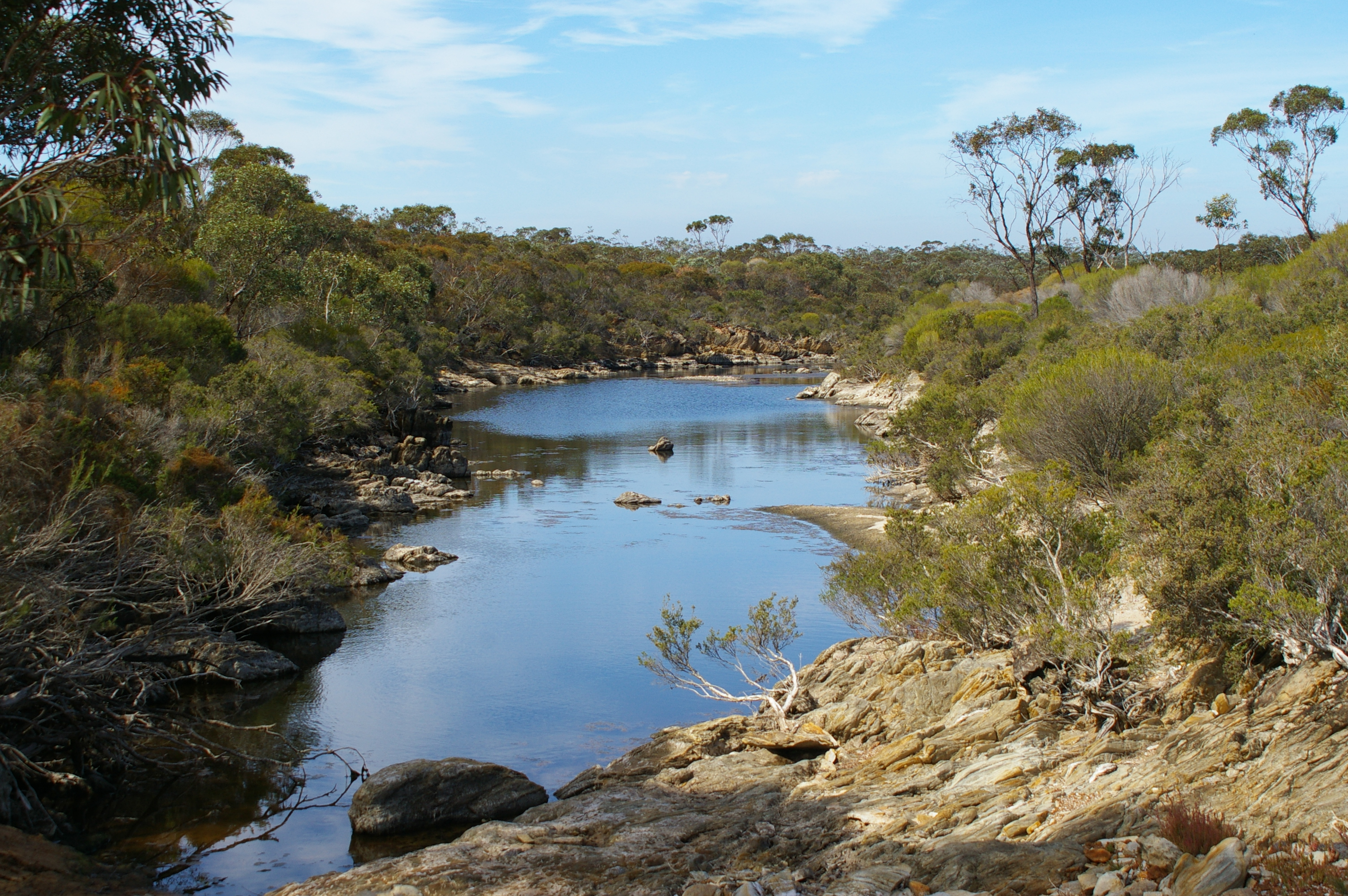 Photo of Gairdner River in Fitzgerald River National Park on the road between West Mount Barren and Bremer Bay